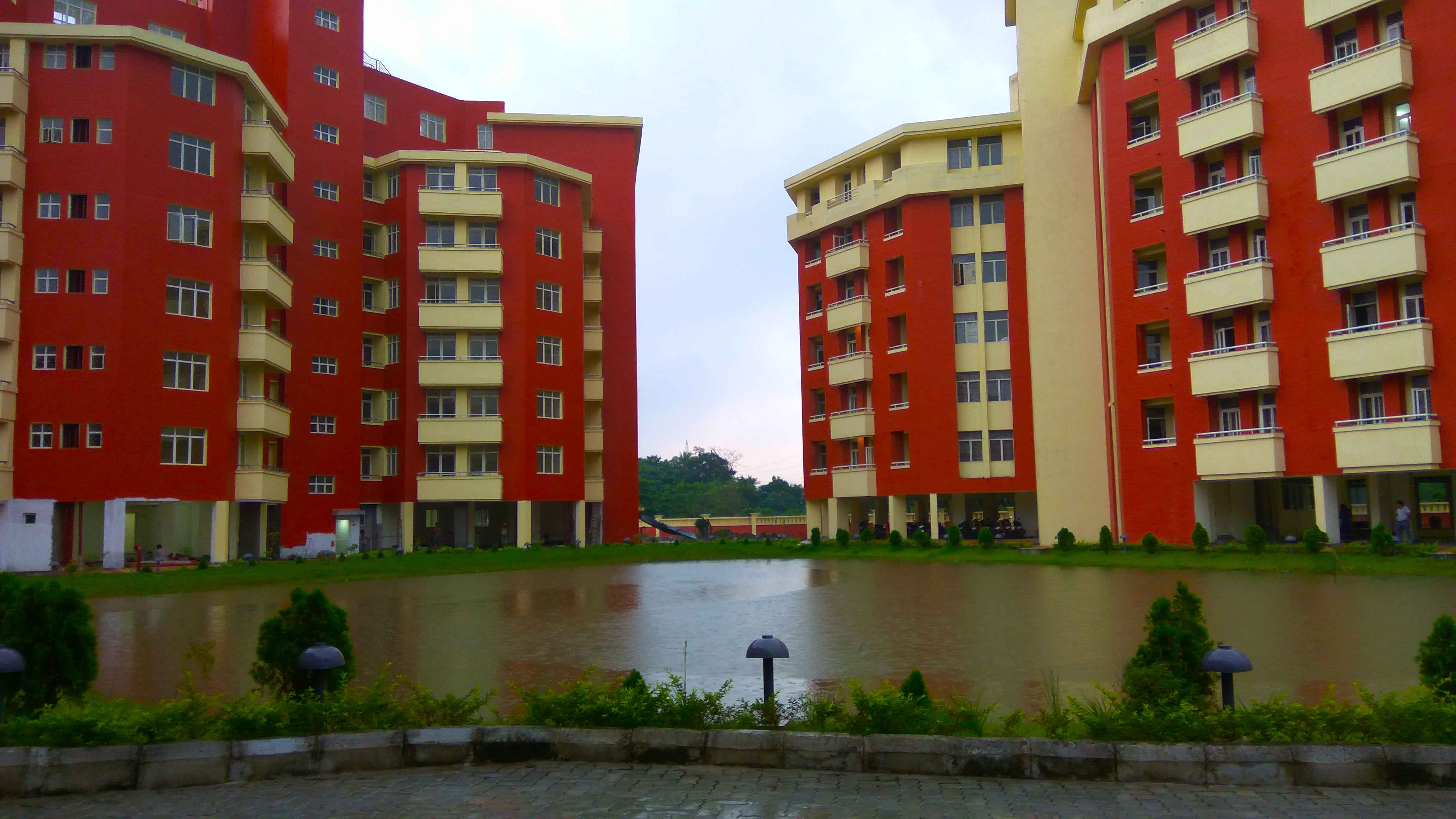 Beautiful pond !